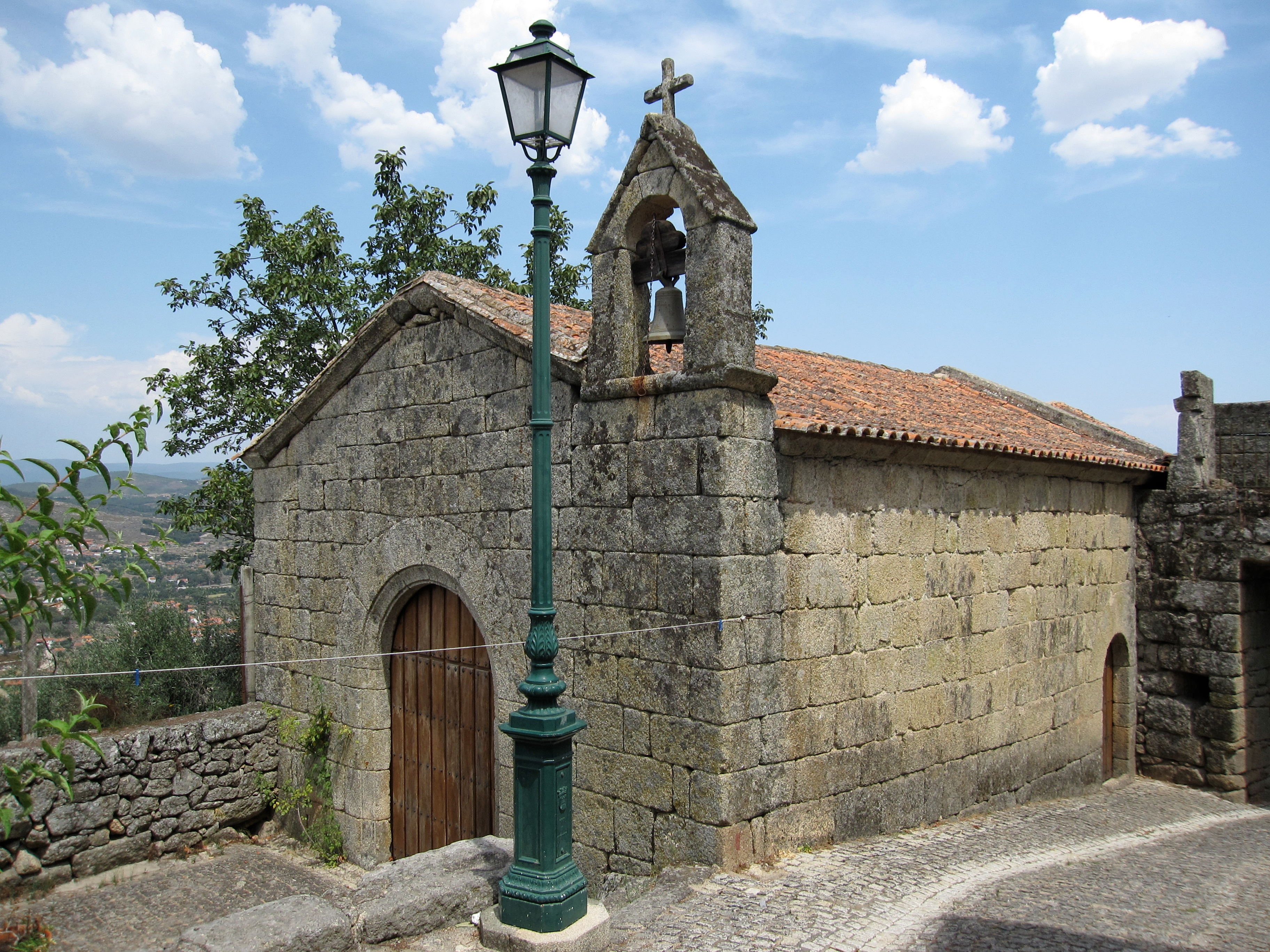 This building is classified as Incluído em sítios classificados. This file was uploaded for Wiki Loves Monuments in Portugal with the unique identifier 97020631.